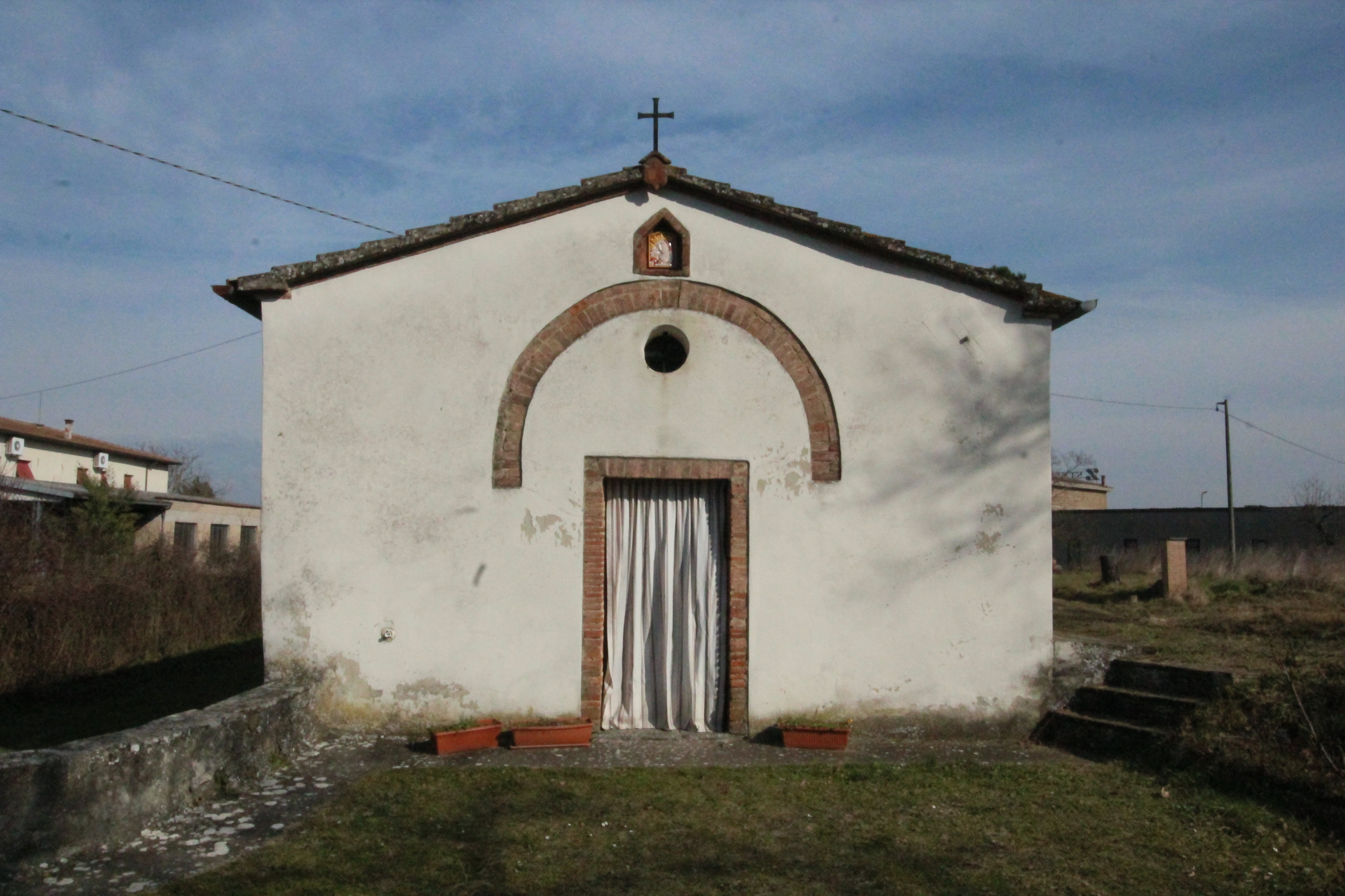 Church/Oratory San Giovanni, outside of Scrofiano, hamlet of Sinalunga, Province of Siena, Tuscany, Italy